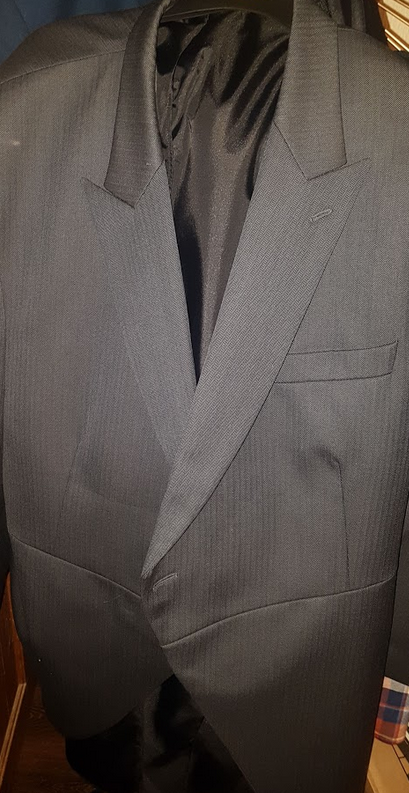 A traditional morning coat hung up on a coat stand